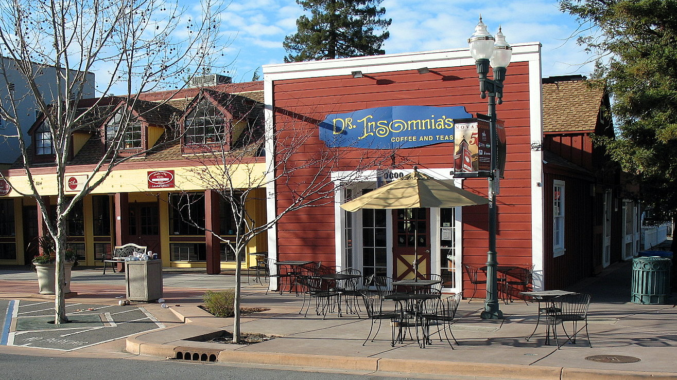 Fashion Shop and Stephen Porcella House — 800 Grant Avenue, in Novato, Marin County, California. On the National Register of Historic Places in Marin County. Photographed from the southwest corner of Grant and Reichert Aves.